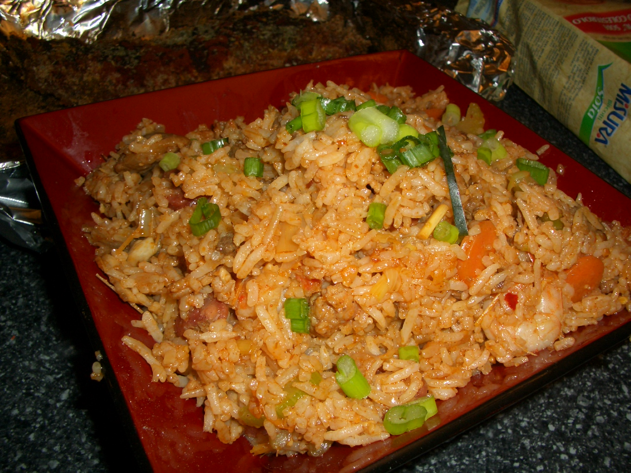 Typical fried rice found in Singapore.